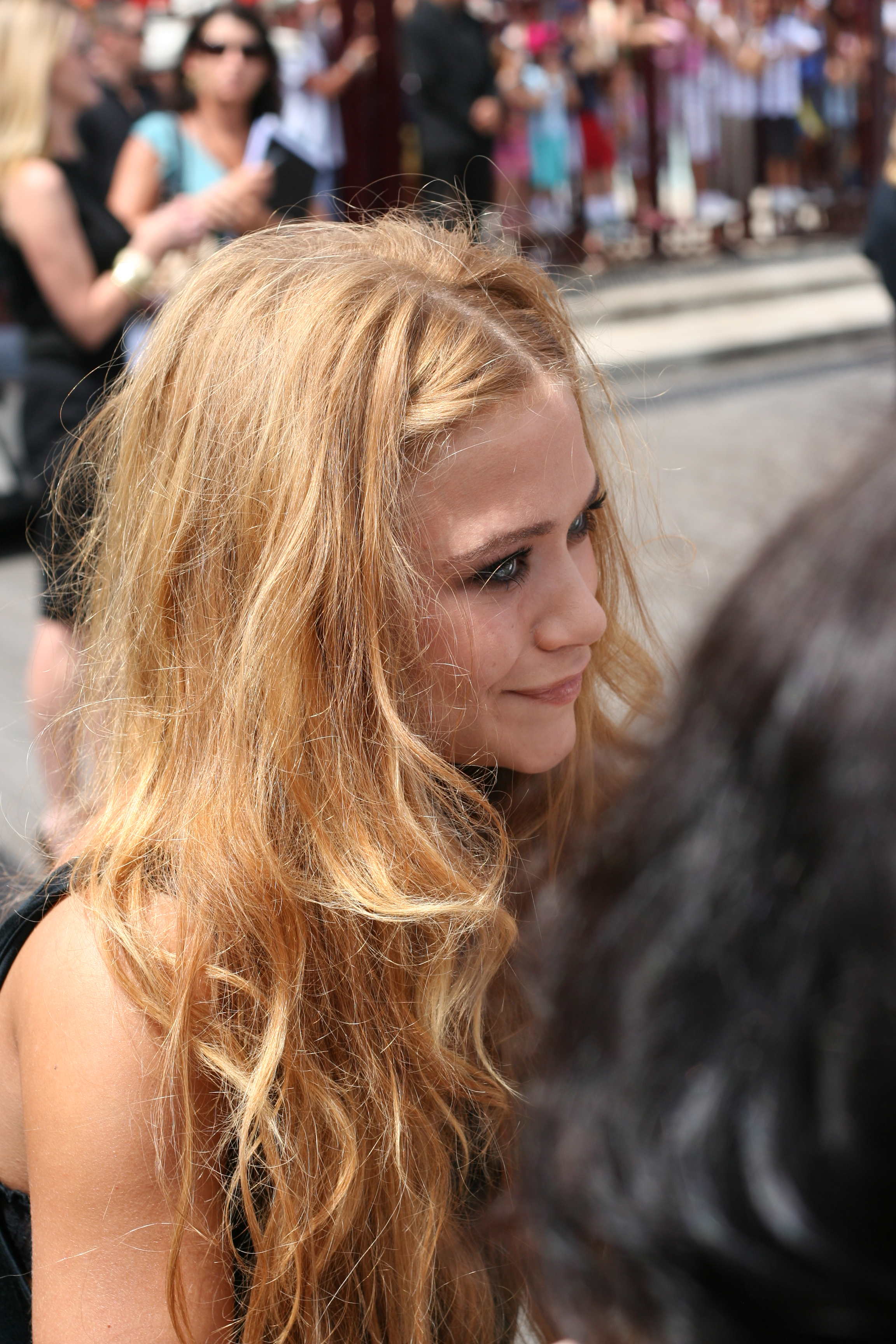 Mary-Kate Olsen at Luna Park, Sydney